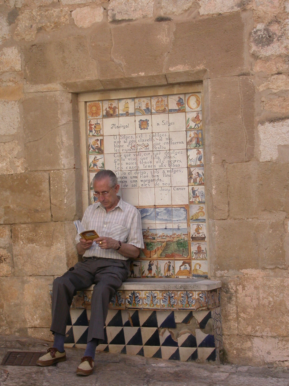 Man reading next to a mural. Sitges, Spain.